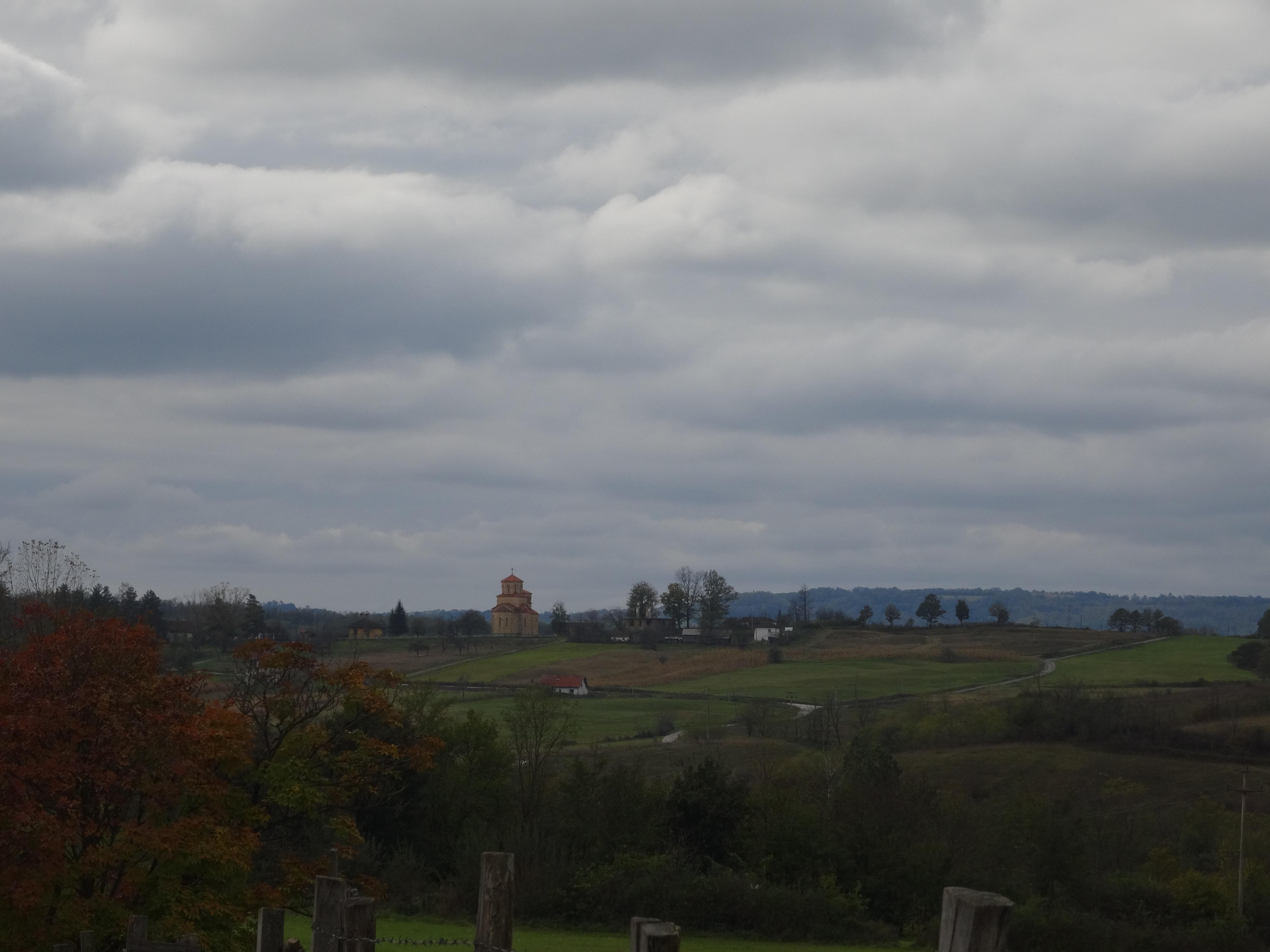 Cerova, View of the village